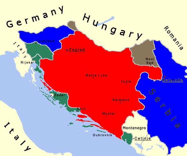 English map of Indipendent State of Croazia. The red area shows NDH, the green area shows Italian annexations, the brown one shows the Hungarian annexations and the blue one shows the German annexations.